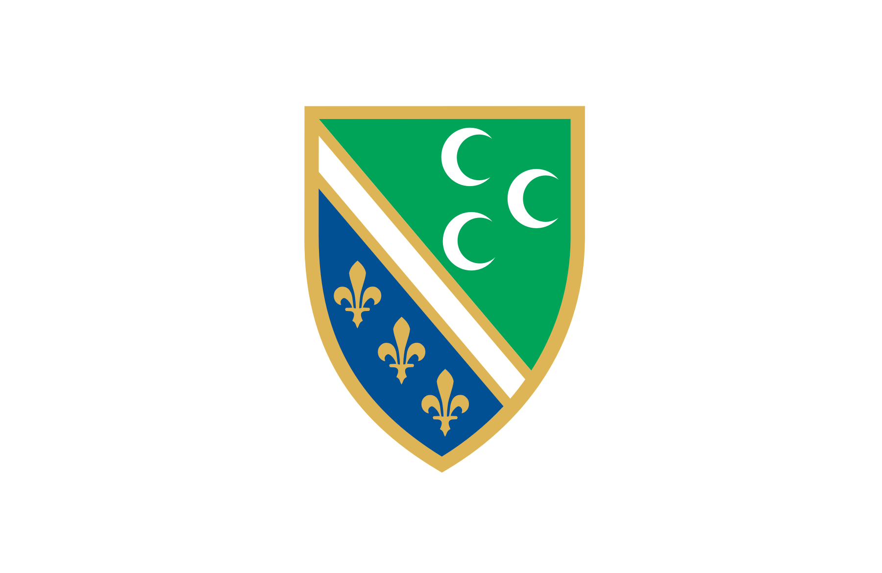 The National Flag of Bosniaks in Serbia and Montenegro